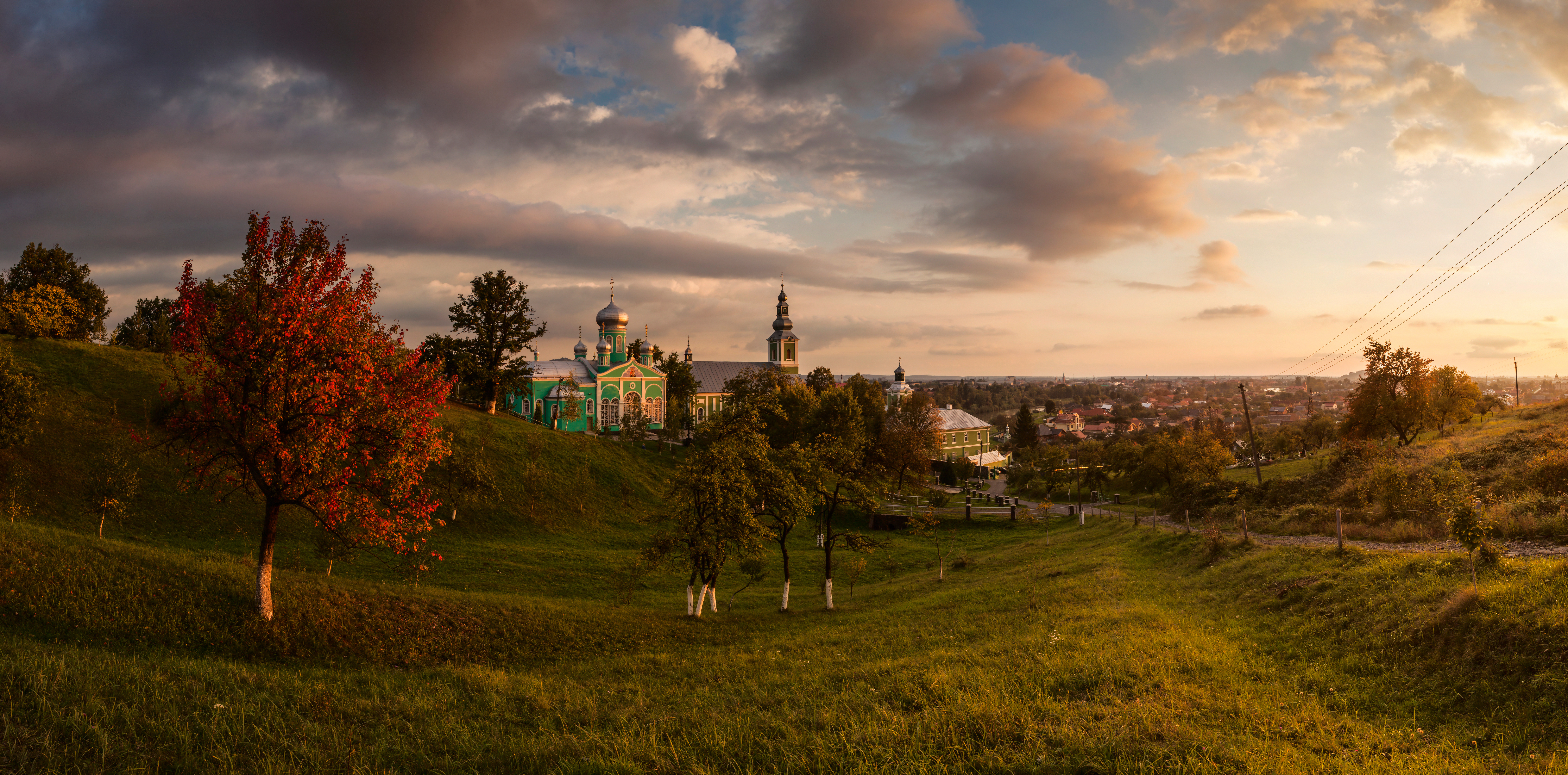 Saint Nicholas Monastery (Mukacheve) (1772-1806, complex of architecture monuments of national significance №171): St. Nicholas Church and cells. Transcarpathian region, Mukachevo